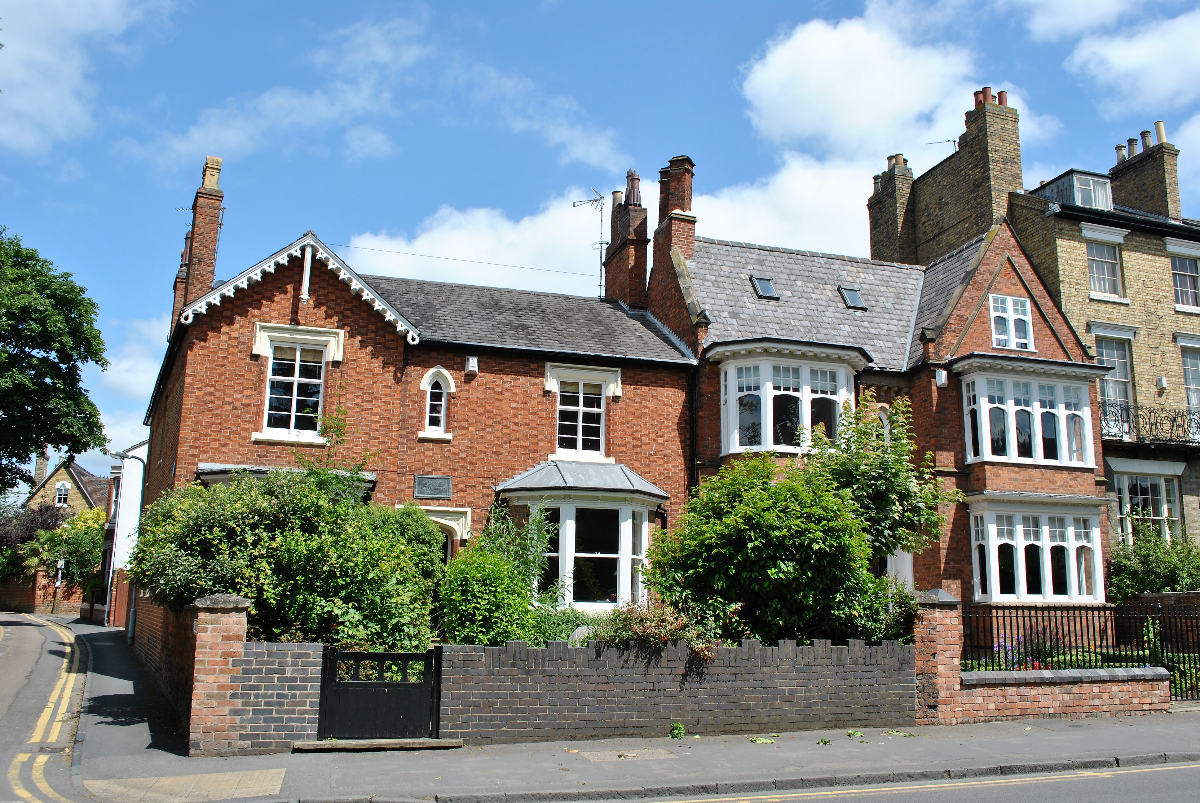 In this house was born Rupert Brooke, 1887